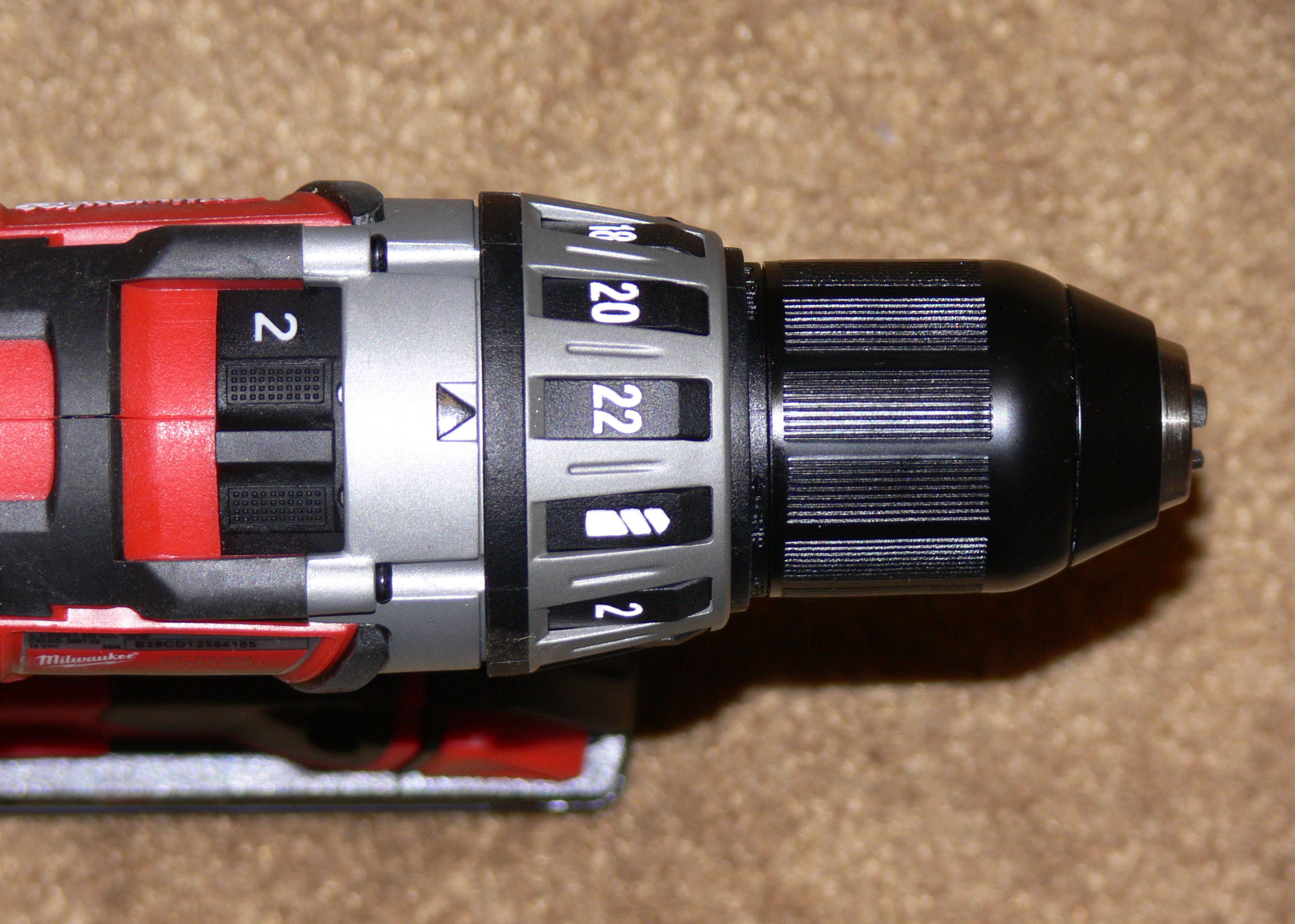 torque control ring and speed switch of cordless drill/driver